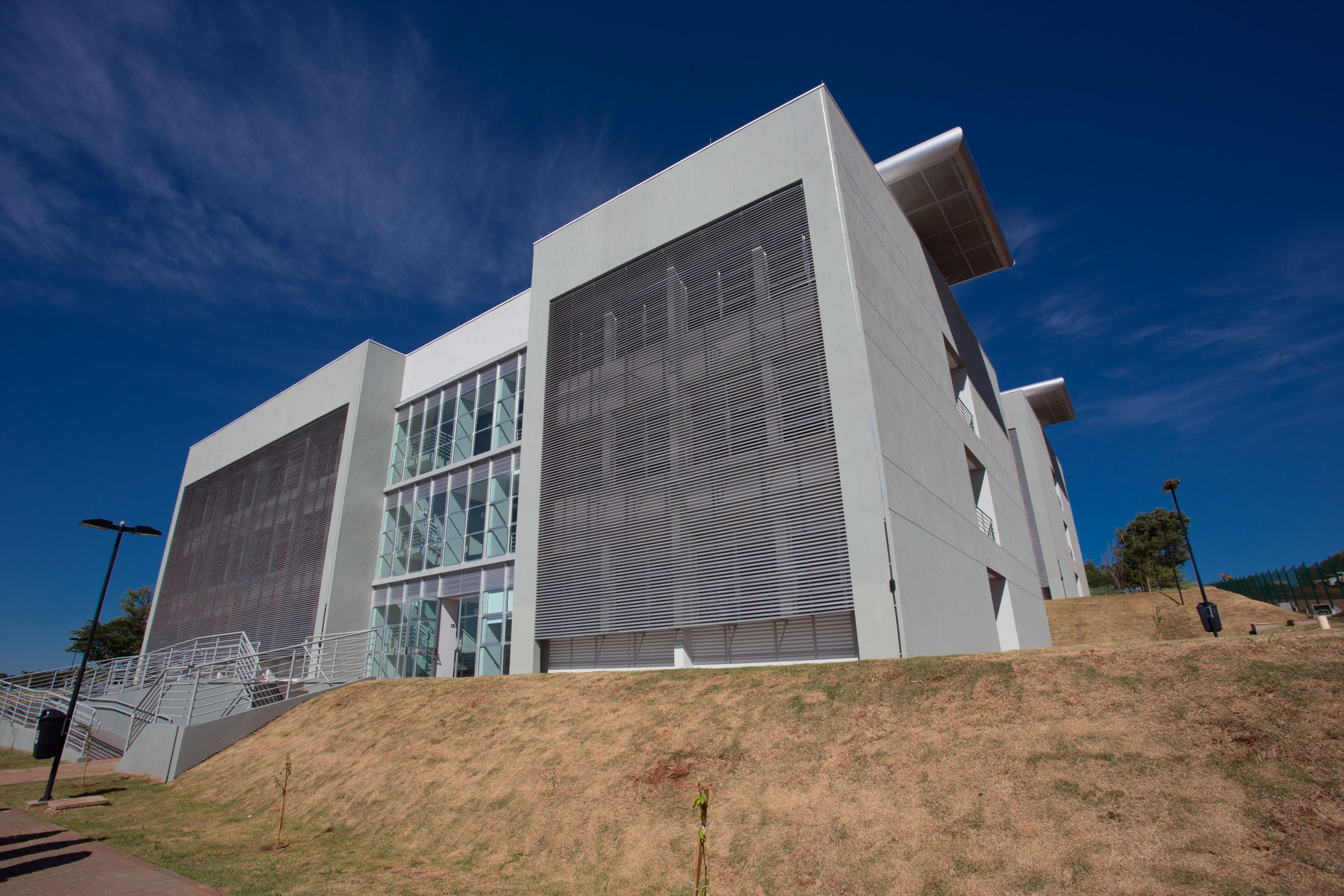 O governador Geraldo Alckmin Participa da Inauguração do Parque Tecnológicoe Entrega 1 Ônibus Escolar para o Município de Ribeirão Preto no Interior de São Paulo.Data: 26/03/2014. Local: Ribeirão Preto/SP.Foto: Diogo Moreira/A2 FOTOGRAFIA